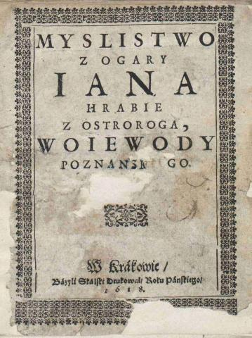 Jan Ostroroga book "Hunting with Hounds"